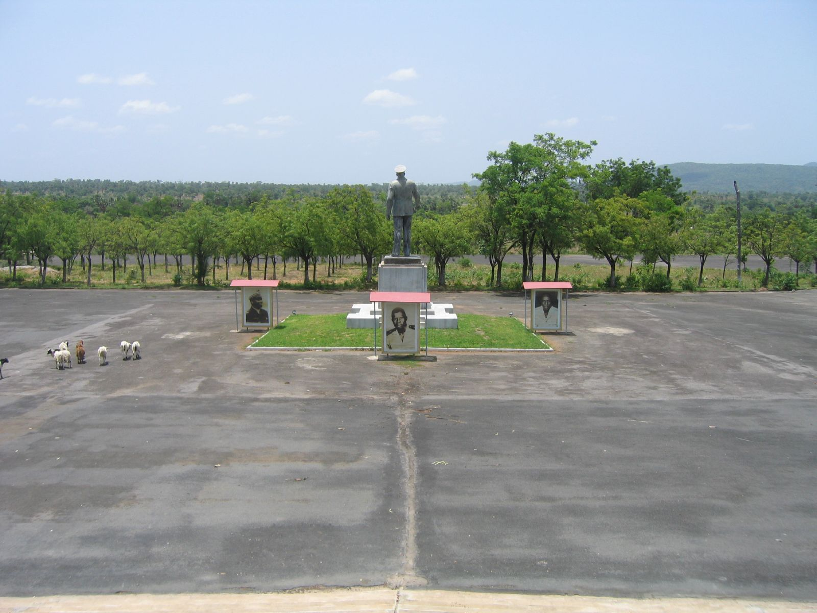 Monument to the 1974 Togo air disaster near Sarakawa in nothern Togo